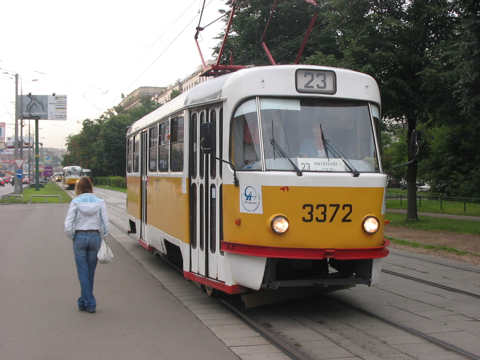 Moscow tram №23 (3372) near "Aviatsionnyi i pishevoi instituty" tram stop.